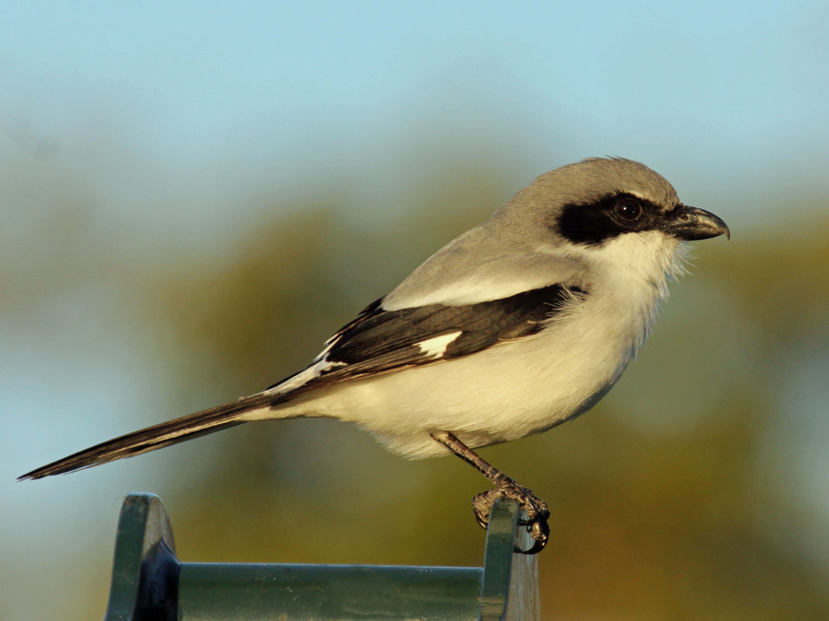 Loggerhead Shrike (Lanius ludovicianus) - Royal Palm Beach, Florida